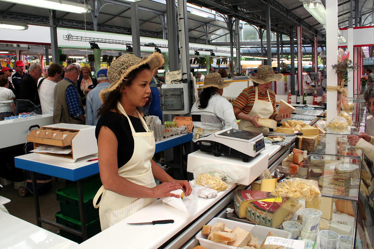 Cormeilles-en-Parisis, The Market (Crèmerie Gayot)